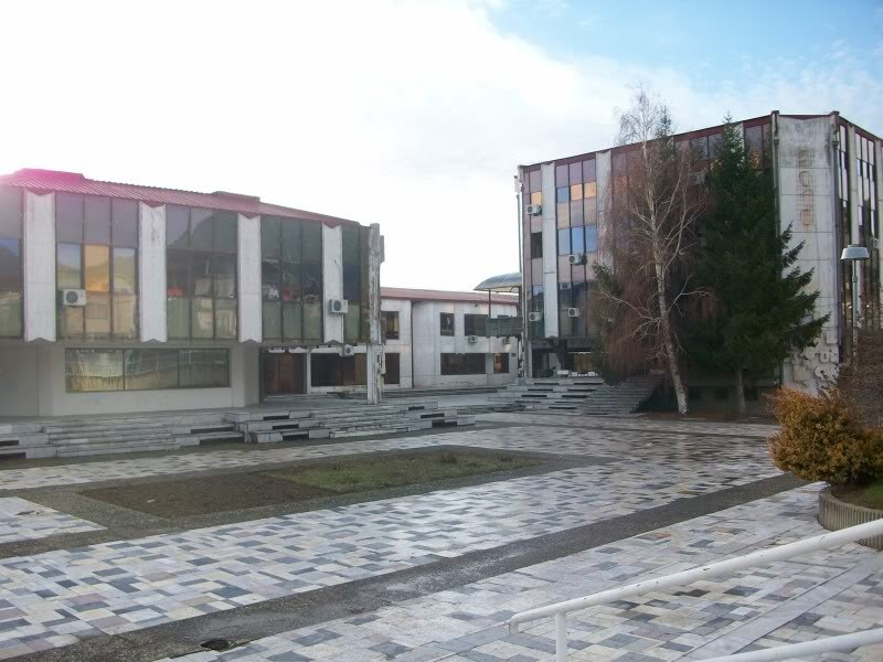 Faculty of Economics in Prilep